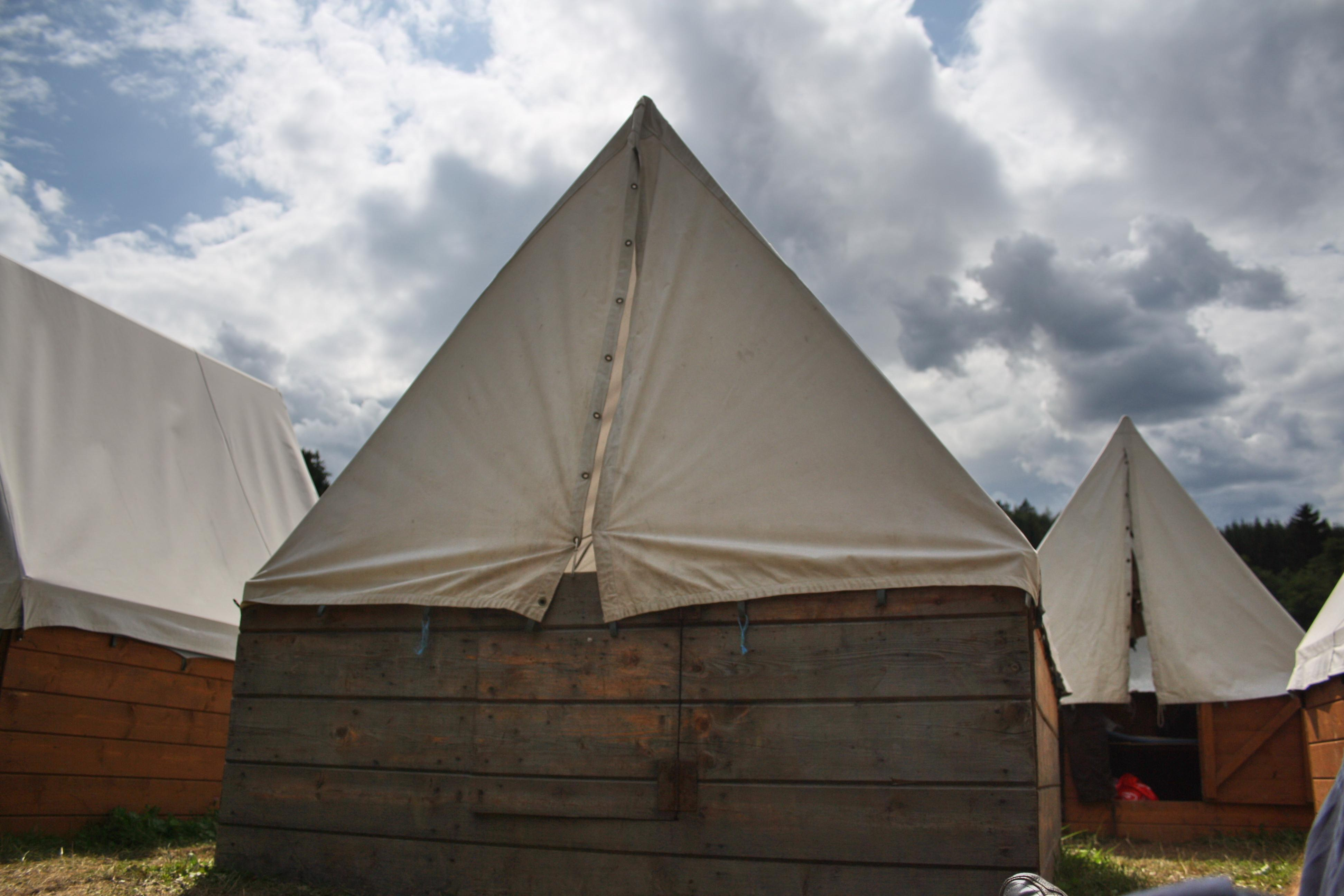 Tent at scout camp in tje Czech Republic.